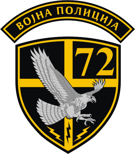 Patch of Military Police/Counter-terrorist Battalion